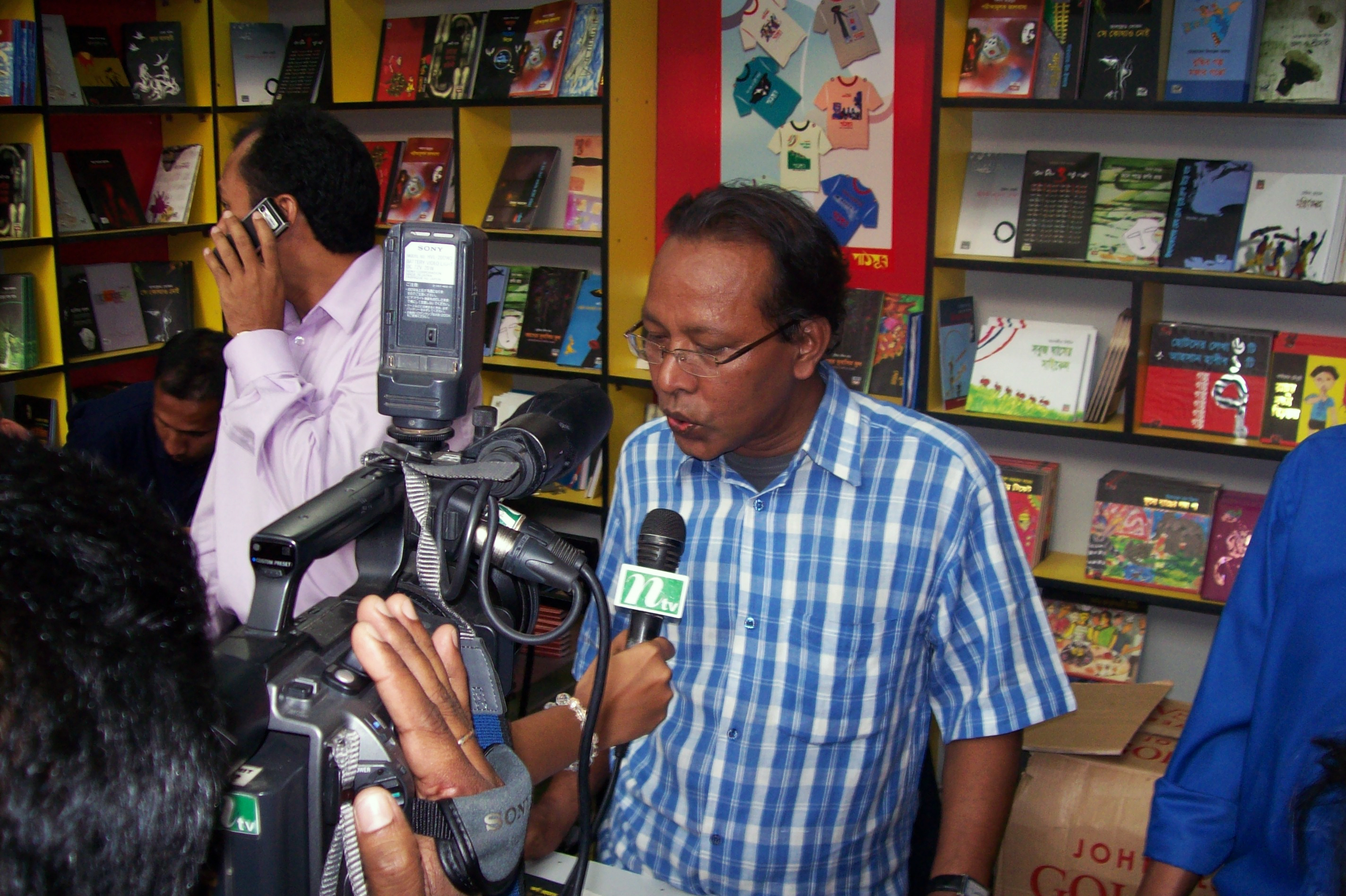 Hafiz Rashid Khan (born June 23, 1961) is a Bangladeshi author, poet, editor and journalist.